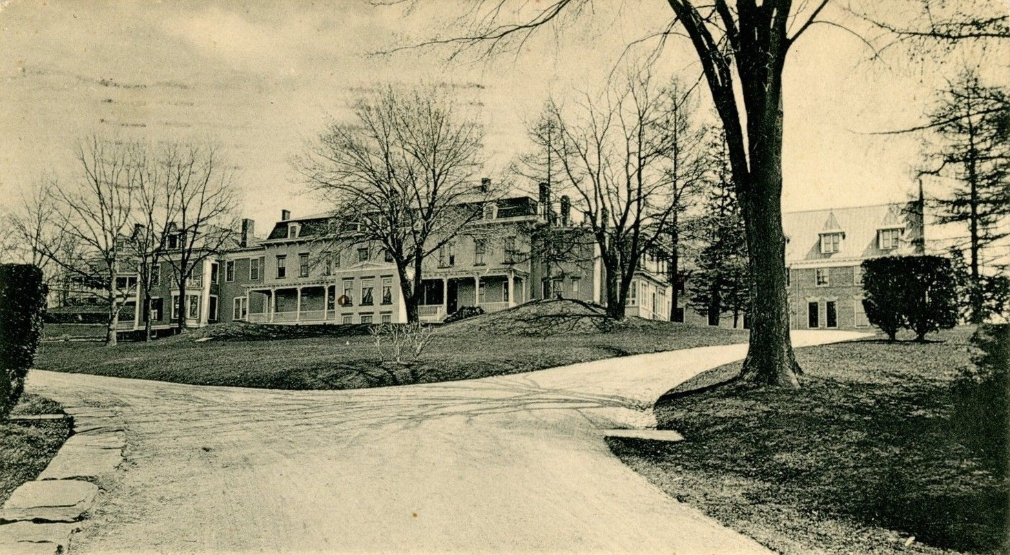 A public-domain photograph of Dr. Holbrook's Military School from a circa 1900 postcard in the author's possession.